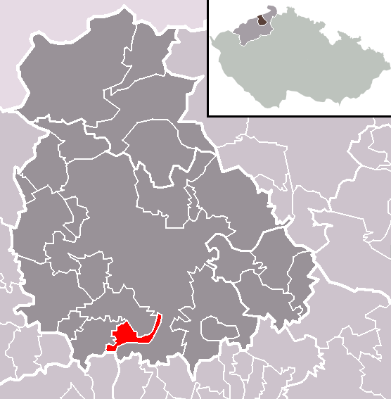 Location of Dolní Zálezly municipality within Ústí nad Labem District and administrative area of Ústí nad Labem as a Municipality with Extended Competence.